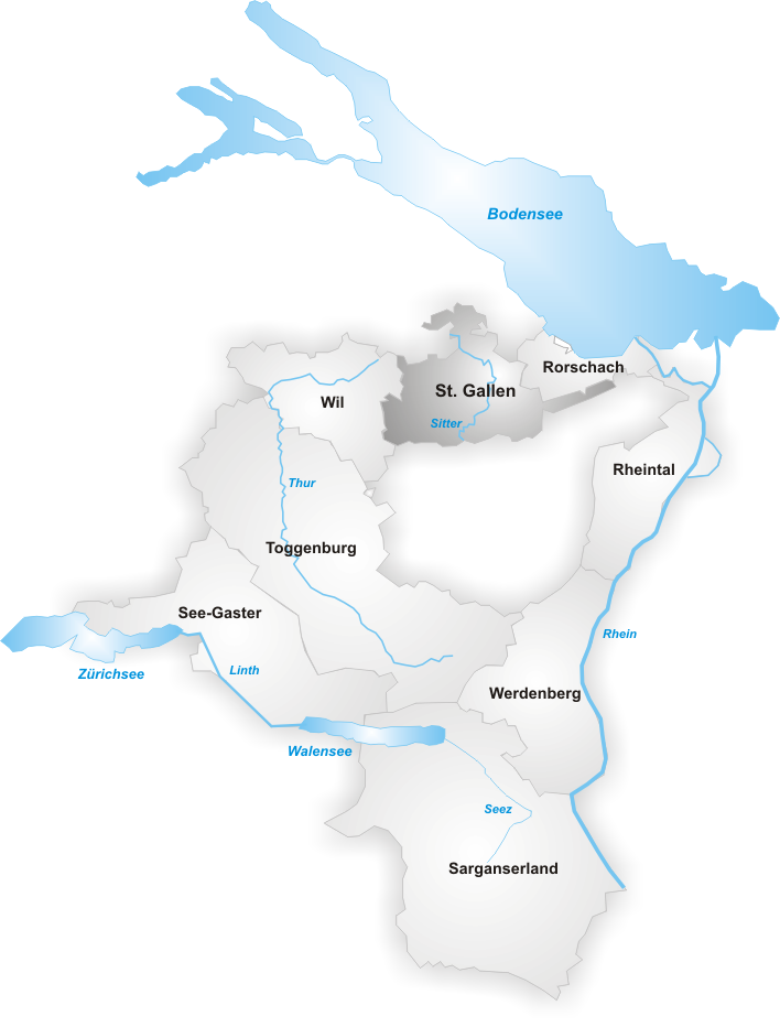 District St. Gallen